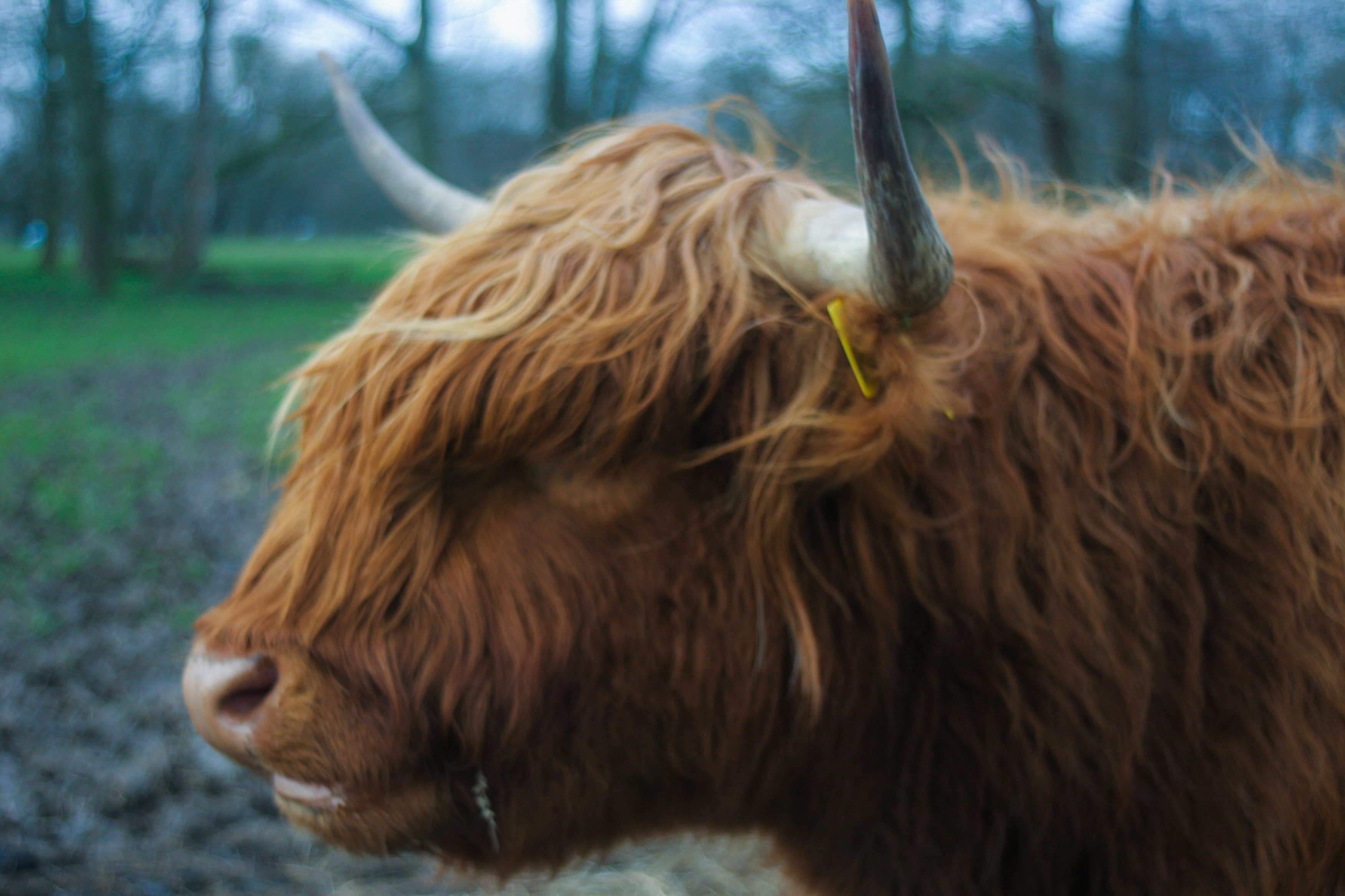 Highland cattle from croxteth park farm